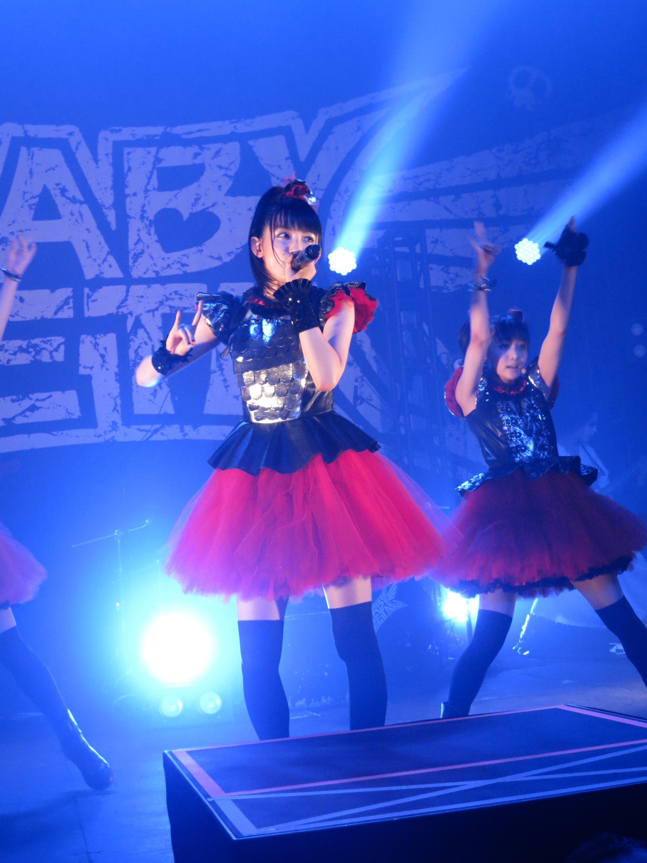 Babymetal performs live at The Fonda Theatre in Los Angeles, CA, USA.